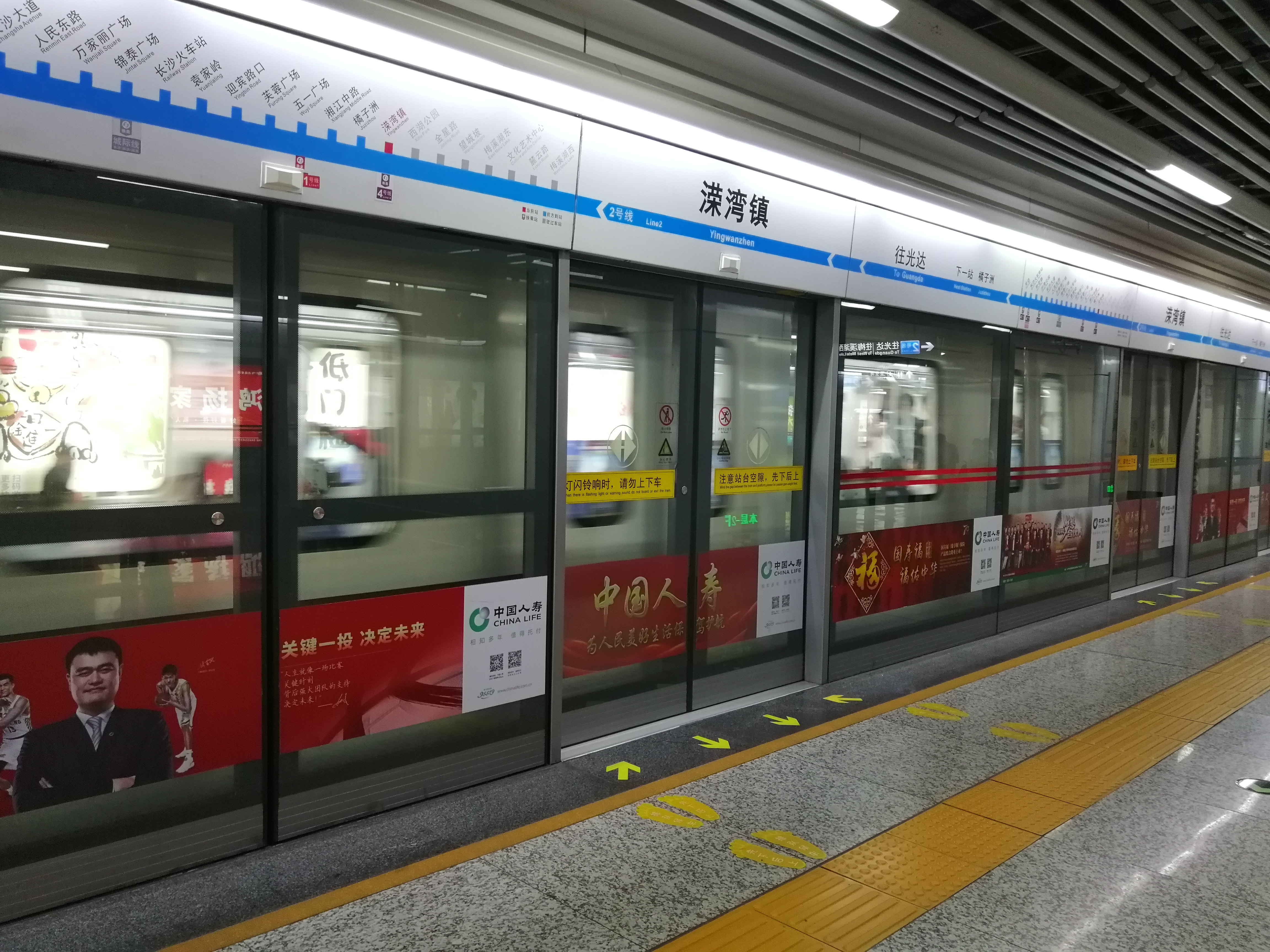 Yingwanzhen Station of L2